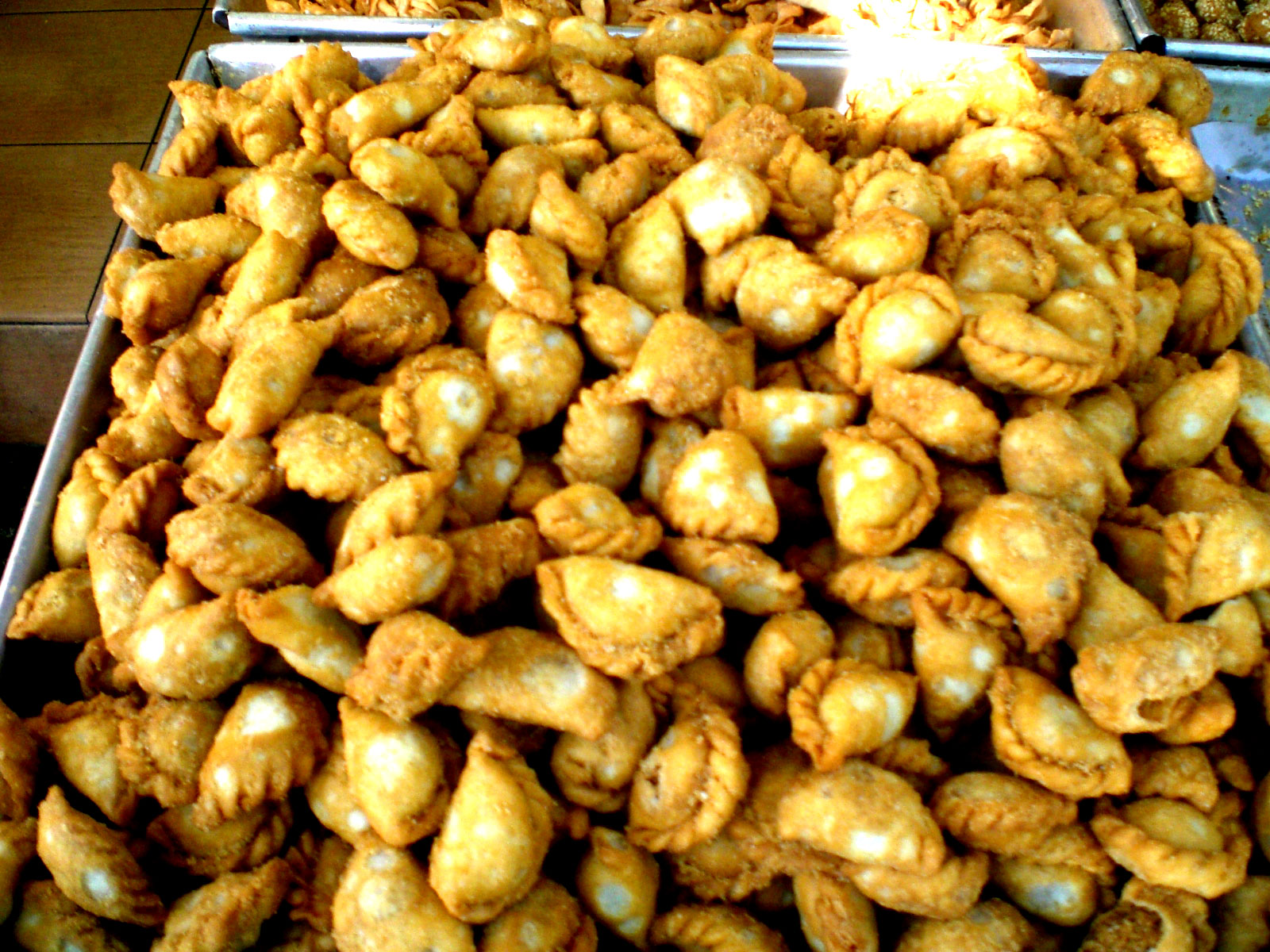 荃灣 快甜美麵包西餅